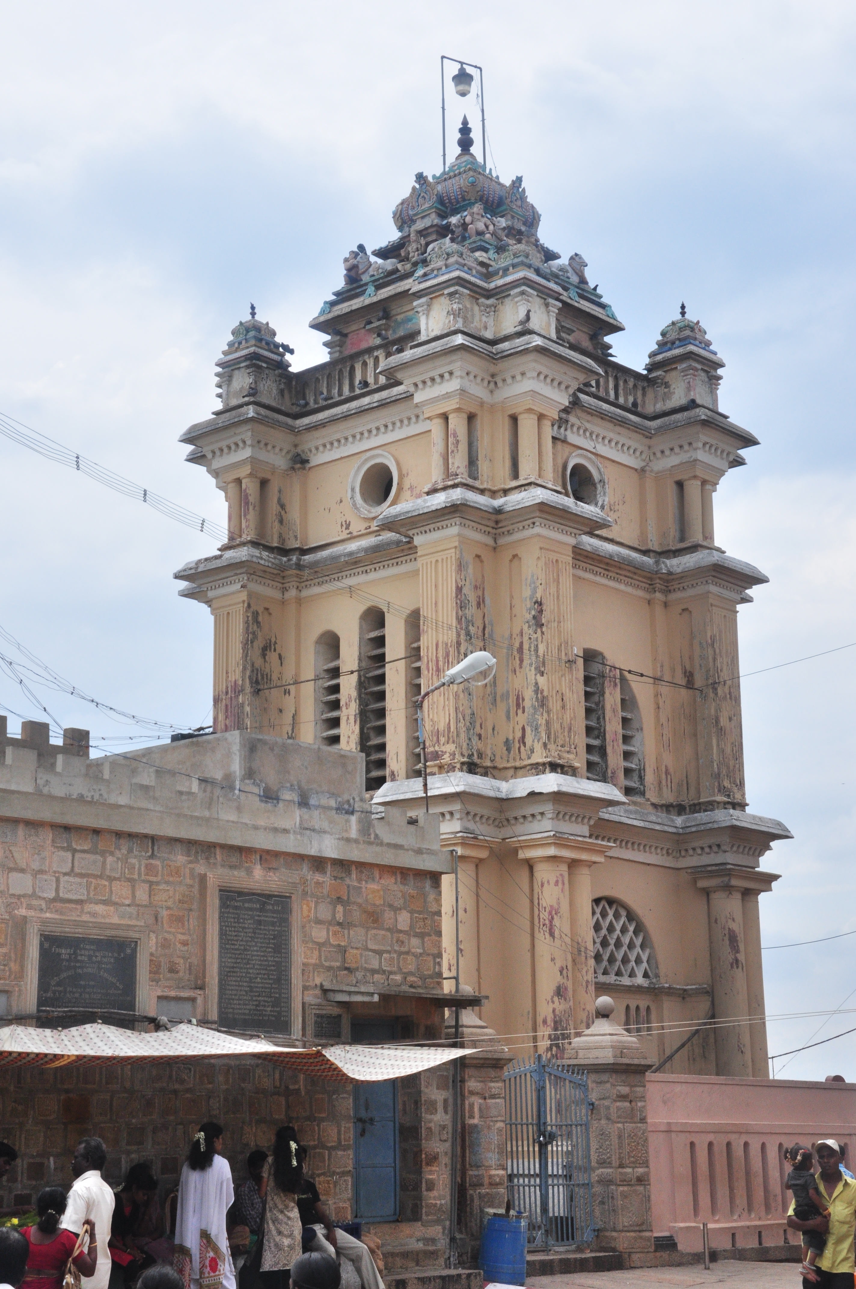 Thayumanaswami shrine, Rockfort, Trichy